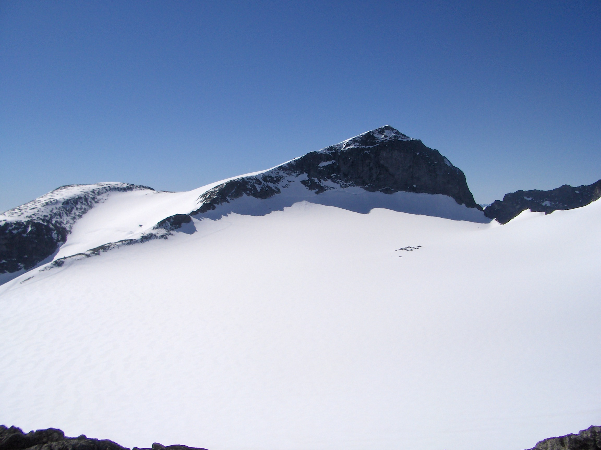 Galdhøpiggen from North